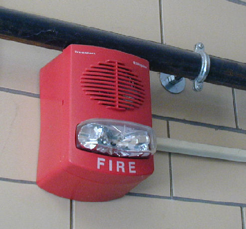 A new-style Simplex TrueAlert speaker/strobe fire alarm, installed at the Brockton Public Library in Brockton. This is part of a modern Simplex 4010 system.